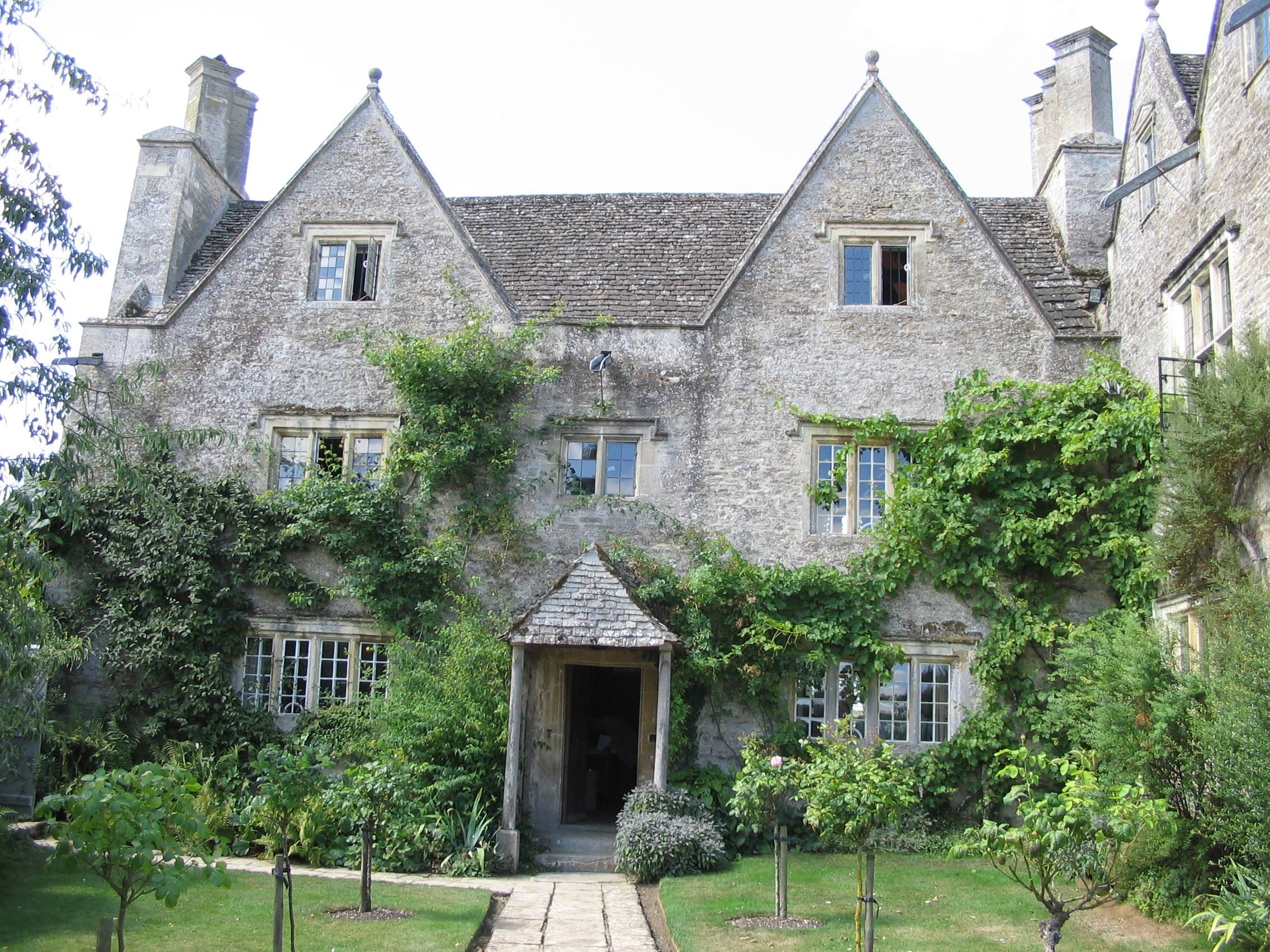 Kelmscott Manor - own picture - August 2006